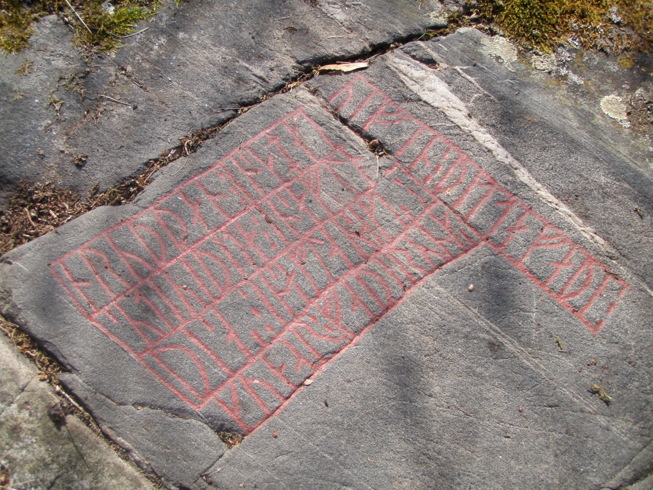 "Oklundastenen" - A flat piece of rock containing 5 lines of a simpled form of runes, which is very unusual on runic stones and inscriptions. It is dating back to 9th century, 200 years before most of the other runic stones in Östergötland. The inscription is a historical legal document and describes a killer who fled to a holy place at Oklunda to escape blood feud. He later came to terms with the killed man´s family according to the law, with the help of the principal of the holy place.